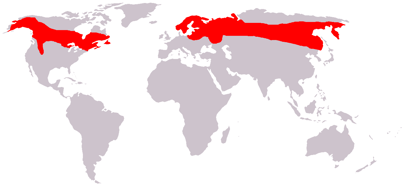 Map showing Moose distribution.